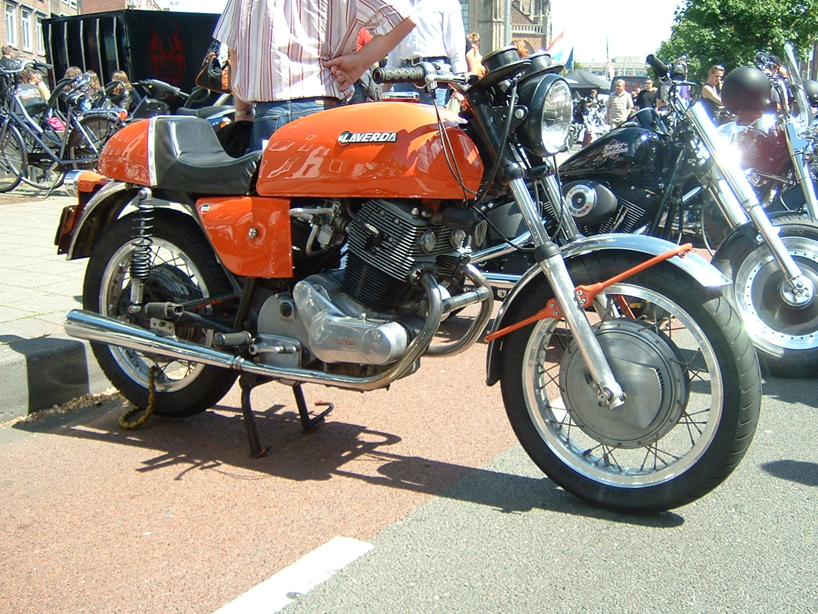 Laverda motorcycle, photo taken at Harley-day in Arnhem (the Netherlands) - I met this beauty at Harley day, May 22, 2005 in Arnhem. Isn't she beautifull??